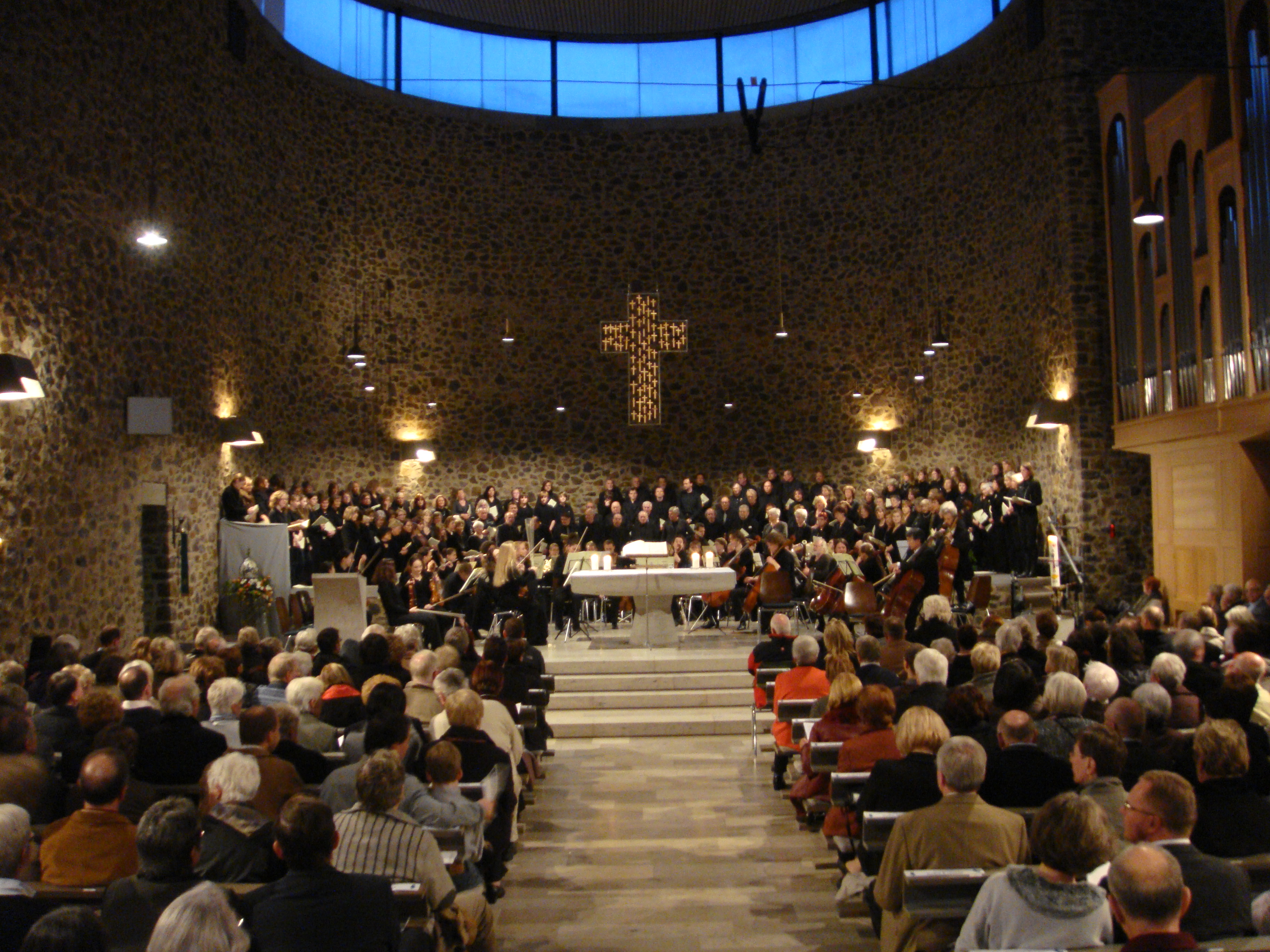 Giuseppe Verdi's Messa da Requiem in St. Martin, Idstein, Germany, orchestra and 3 choirs before the second performance 14 November 2010, Mebold organ right